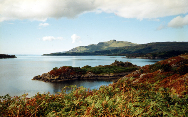 Isle of Risga, Loch Sunart